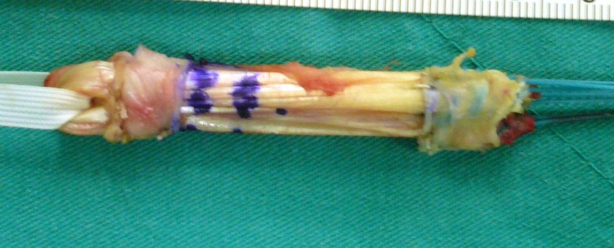 ACL reconstruction with periosteum-enveloping hamstring tendon autograft.